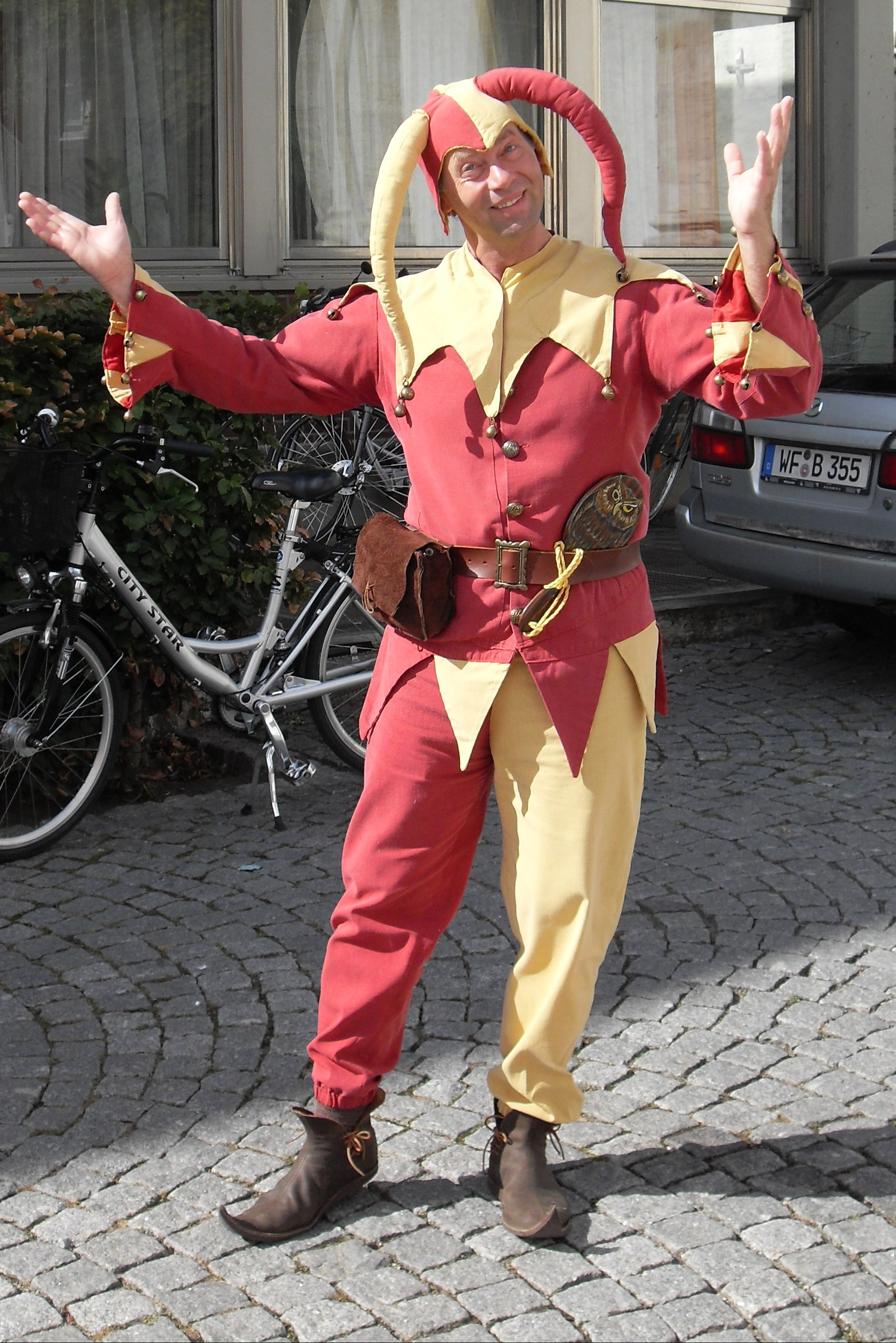 Man dressed as Till Eulespiegel on an event in Schöppenstedt, Germany